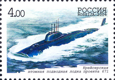 The 100th anniversary of the Russian Navy underwater forces. Atomic submarine from Project 671.